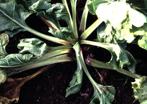 Symptom of Rhizoctonia root rot of sugar beet. Photo by Fk, 2001?